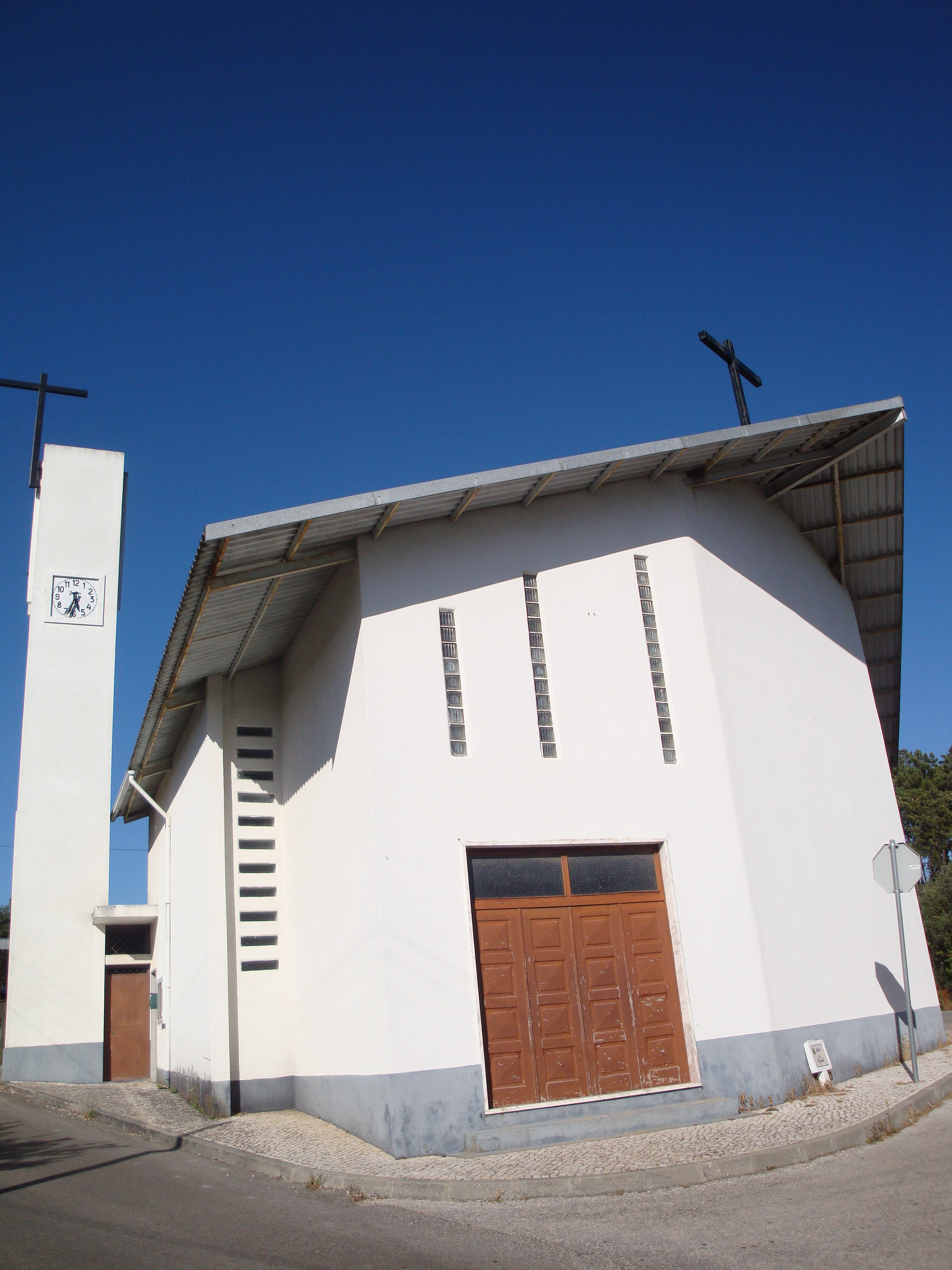 capela